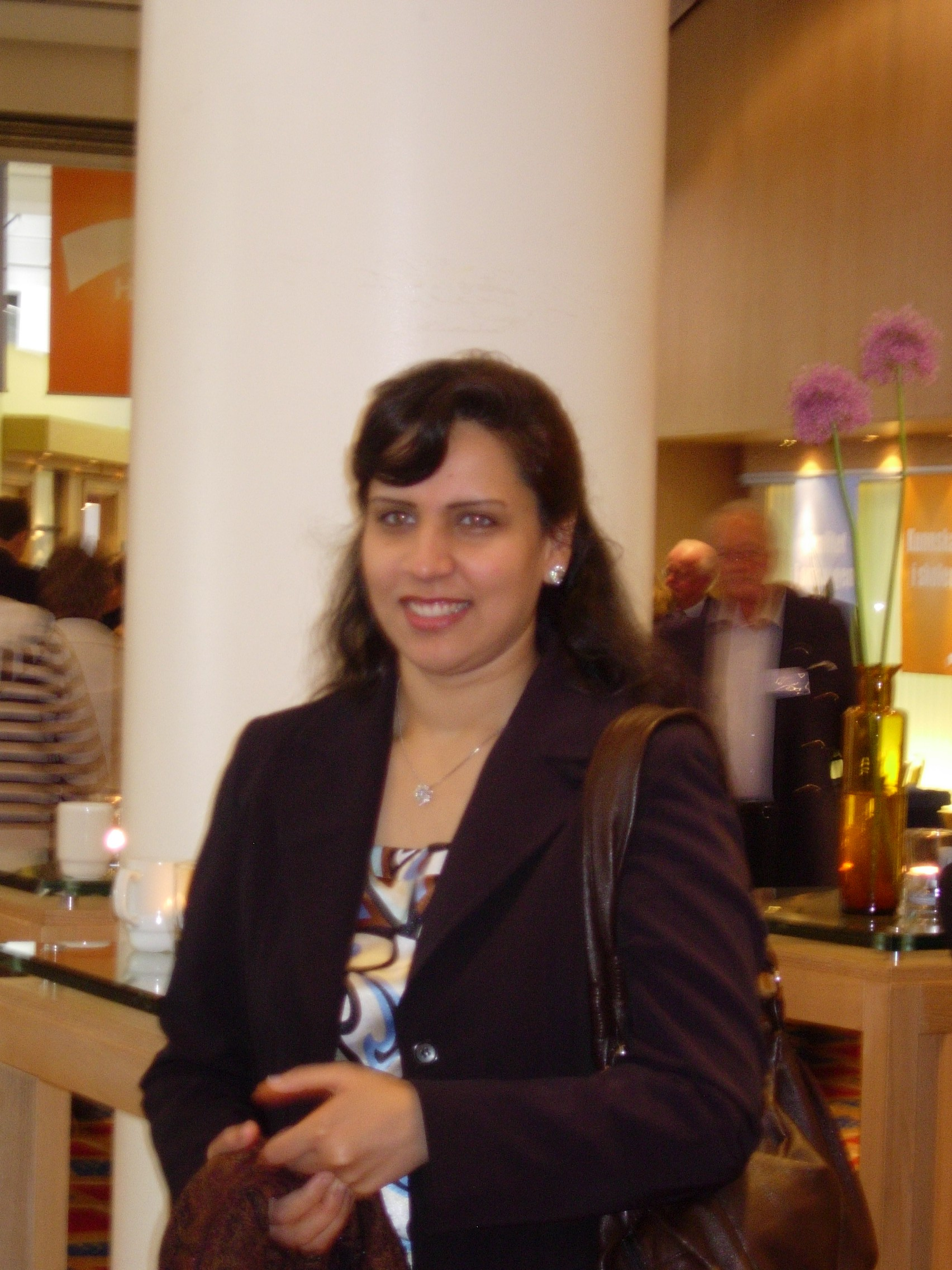 Norwegian politican Afshan Rafiq (H)